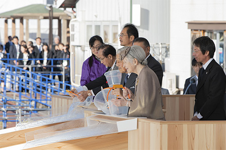 Emperor Akihito and Empress Michiko released juvenile fishes with Yoshiaki Harada, Minister of the Environment, at the National Convention for the Development of an Abundantly Productive Sea in Uranouchi Bay on October 28, 2018.